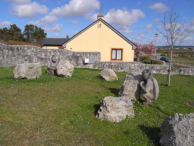 "Hide and seek", Glenamoy, near to Glenamoy, Mayo, Ireland. This delightful sculpture stands at a corner of the Glenview Estate in Glenamoy beside the R314 Belmullet to Belderg road.